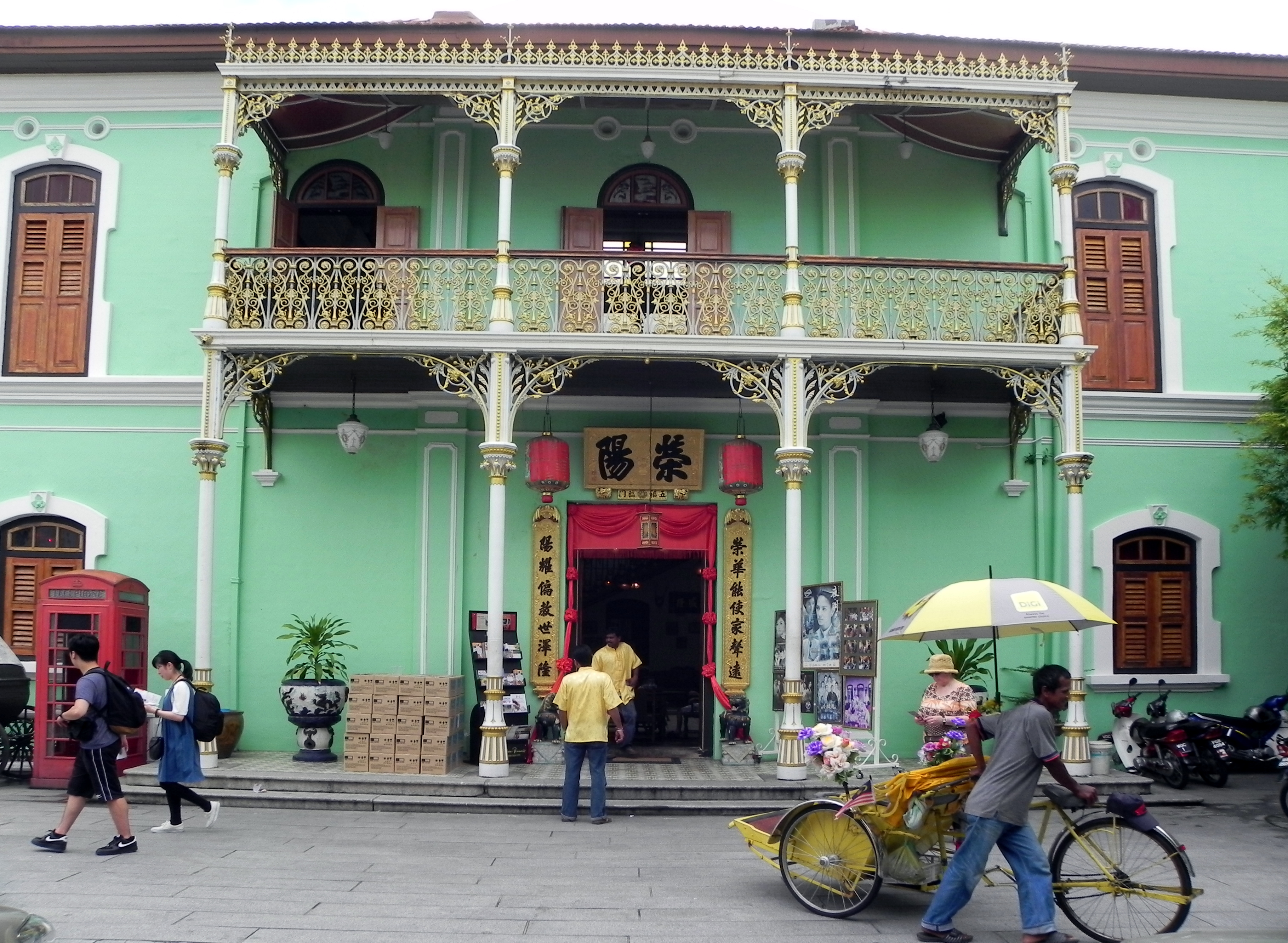 Penang Peranakan Mansion, stately mansion built at the end of the 19th century, residence and office of Kapitan Cina Chung Keng Kwee. Church Street, Georgetown, Penang, Malaysia